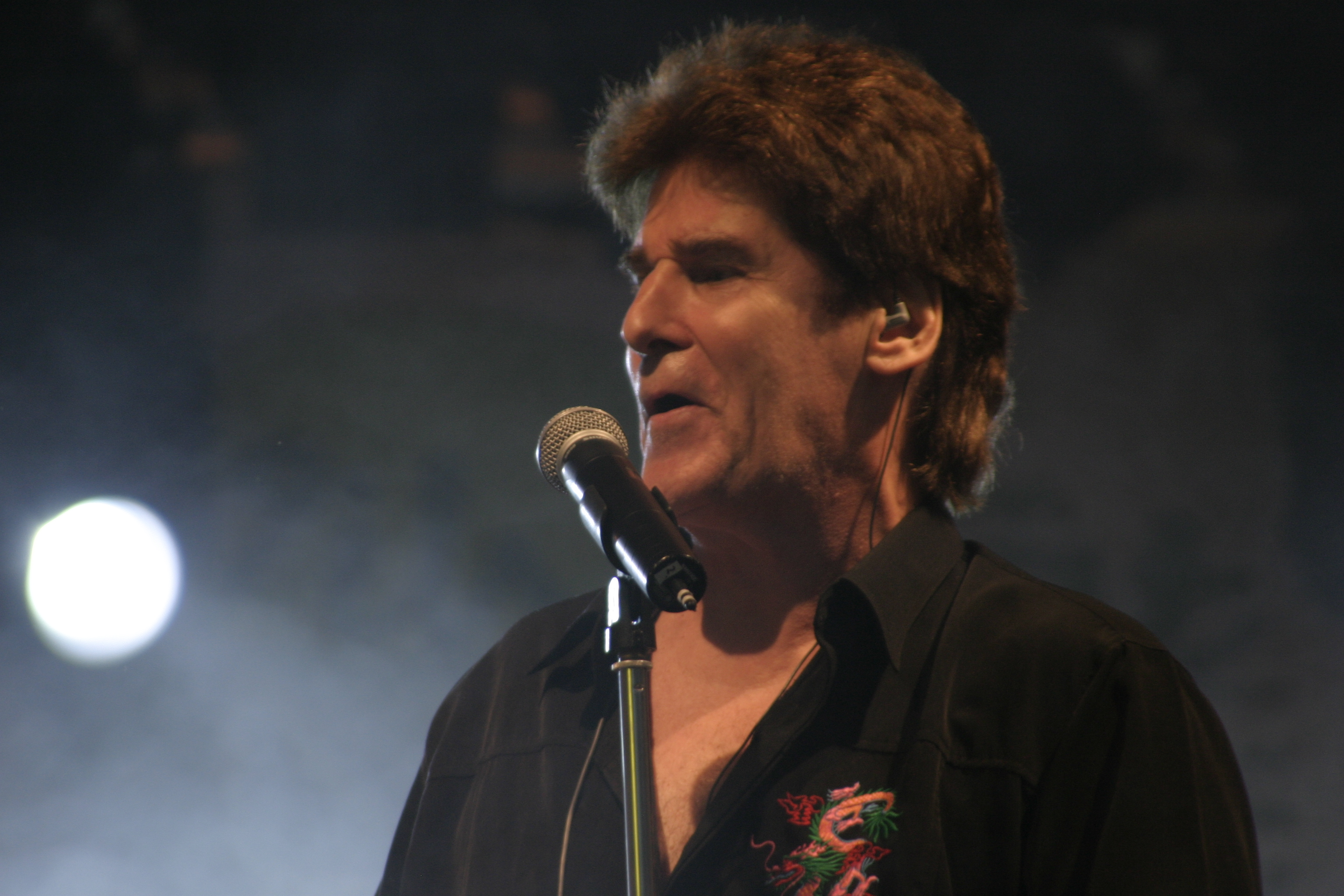 Frederik, 16.7.2008, Kiuruvesi